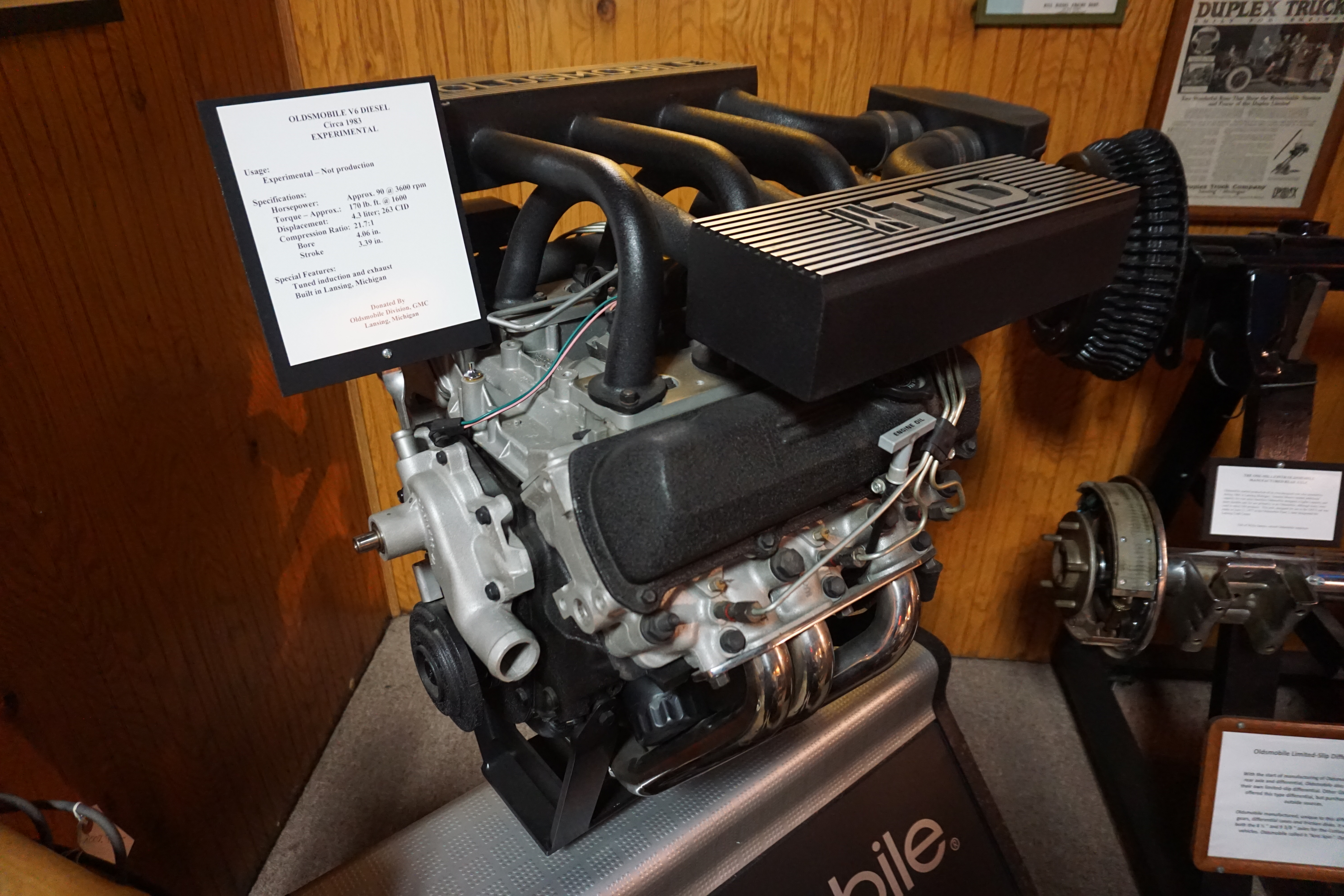 A circa 1983 Oldsmobile V6 experimental diesel engine at the R. E. Olds Transportation Museum in Lansing, Michigan (United States).